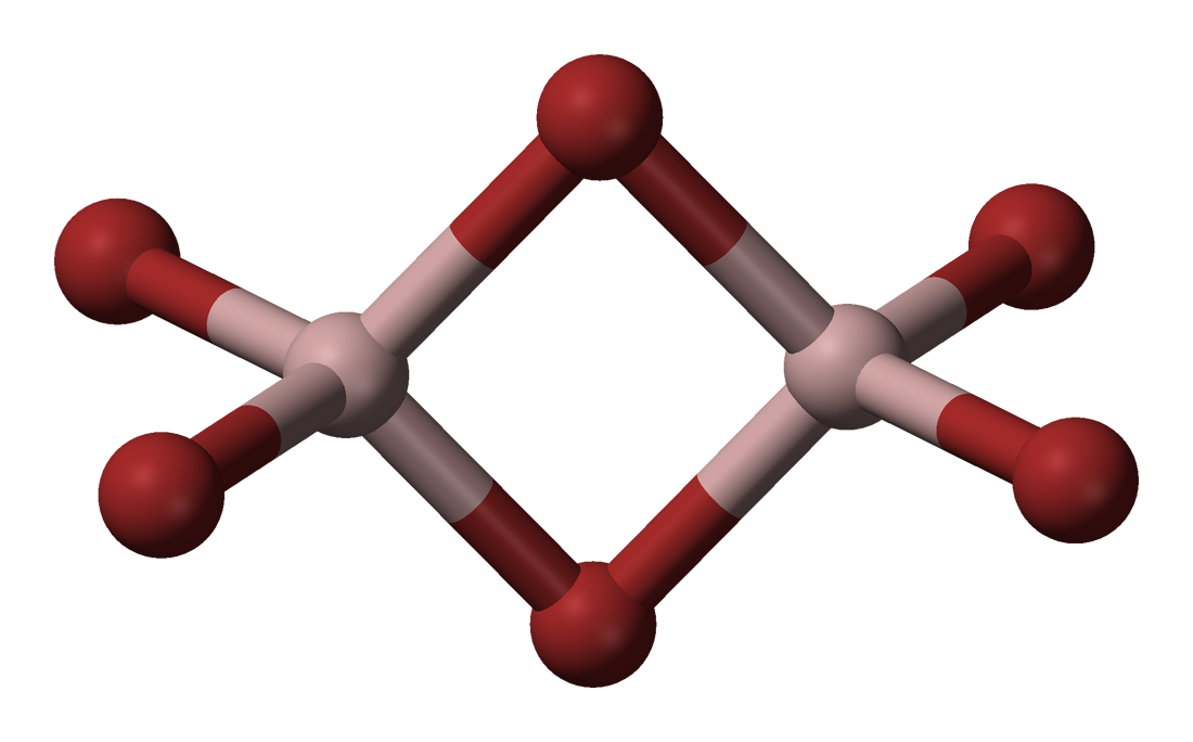 chemical strucuture of the aluminium bromide dimer